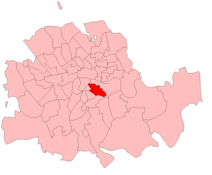 A map of Bermondsey constituency within the Metropolitan Board of Works area, as it existed from 1885 to 1918.